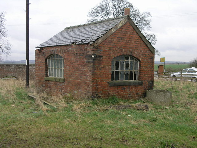 Railway Building. This small building was once part of Eastoft Railway Station. The station is now long gone and it will not be long before the cracks in this building bring this structure down.